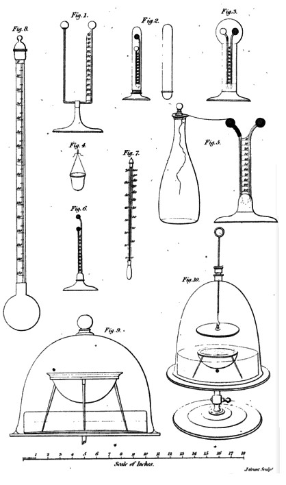 Drawings of scientific apparatus in book by John Leslie, the Scottish physicist